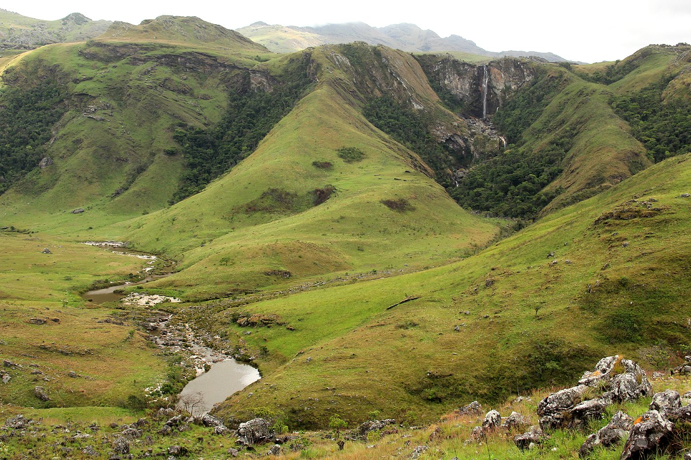 Tucker's Falls on the Mudzira River - Chimanimani Mountains, Mozambique